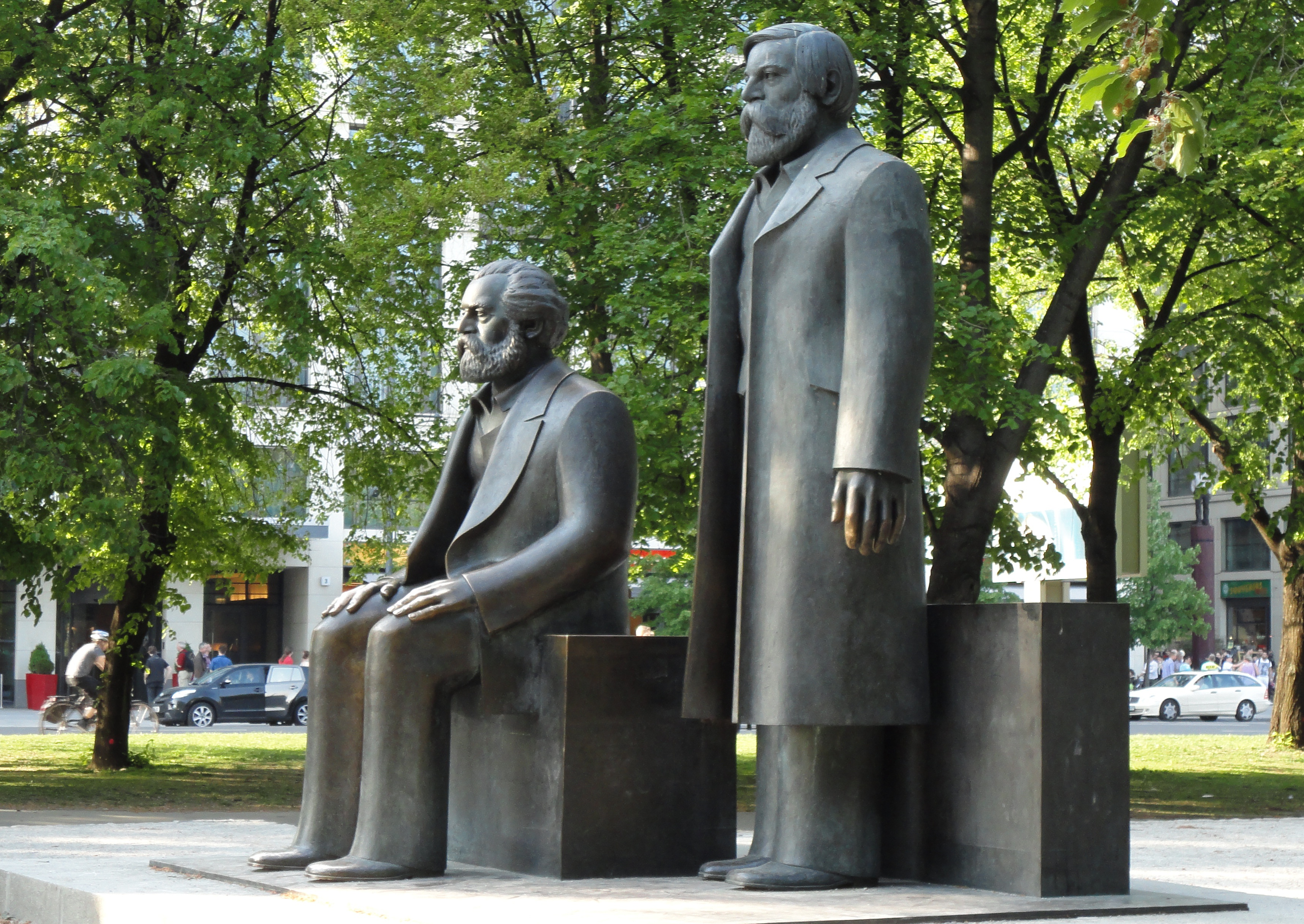 A photo of the Marx-Engels monument after the transfer to the green space next to the Karl-Liebknecht-bridge.